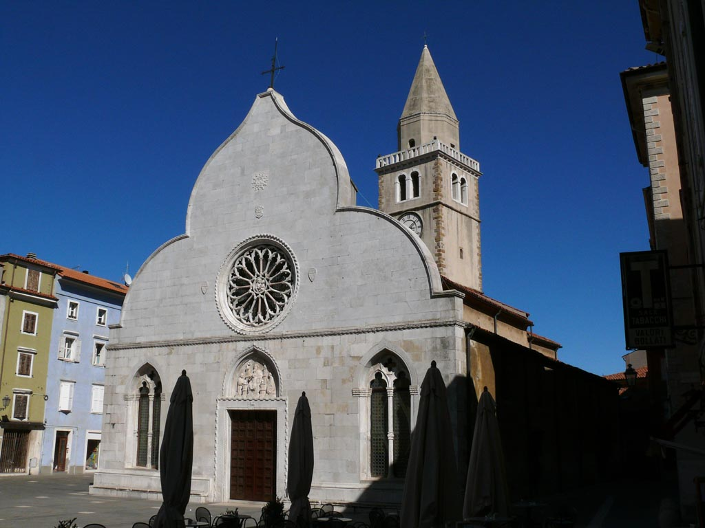 Muggia, cathedral